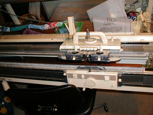 Wikibook Machine Knitting. Brother knitting machine